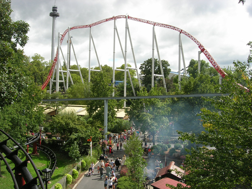 Storm Runner at Hersheypark. Photo by Ryan Painter